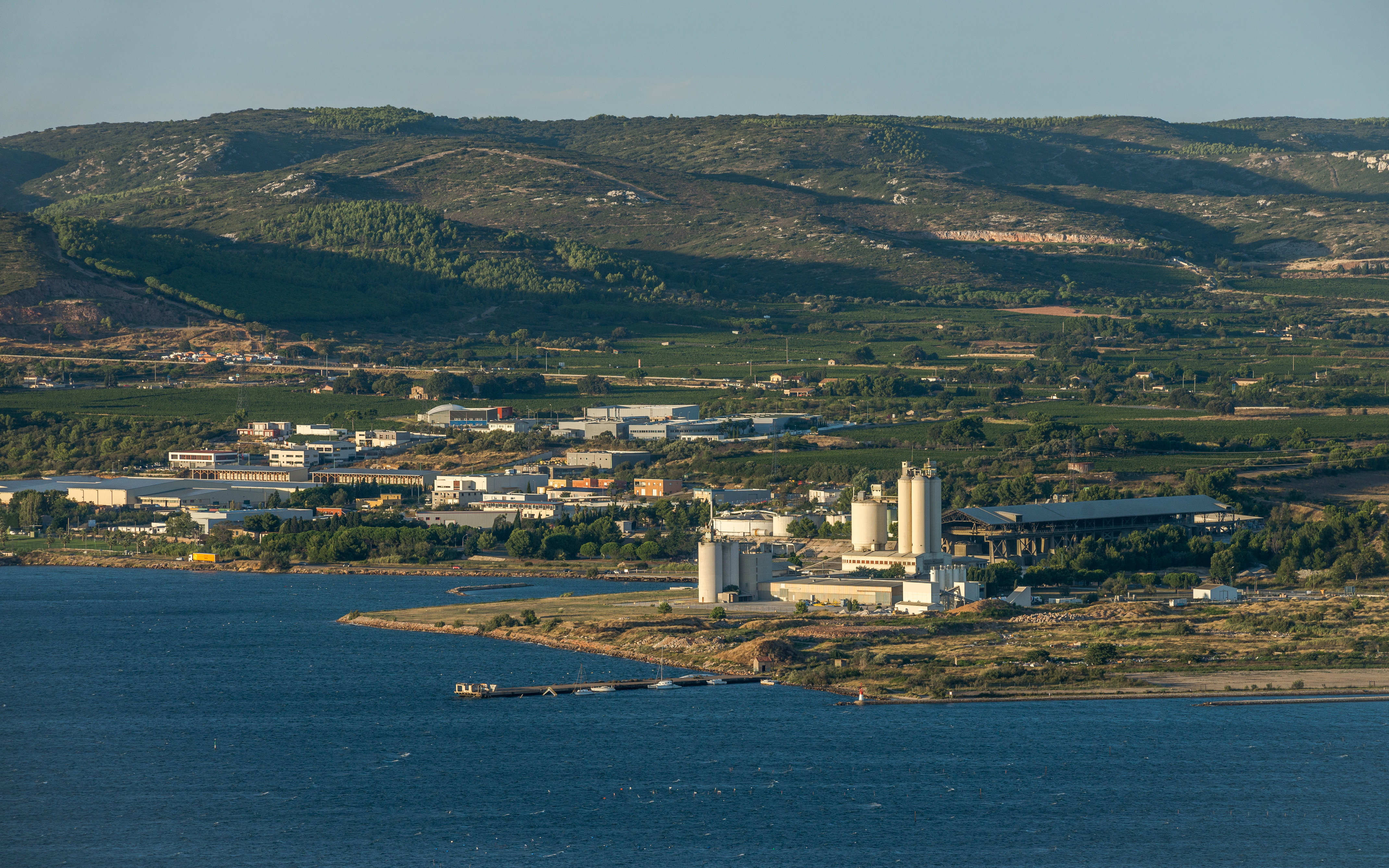 The Lafarge cement plant and the Horizon Sud industrial park, Frontignan, Hérault, France.